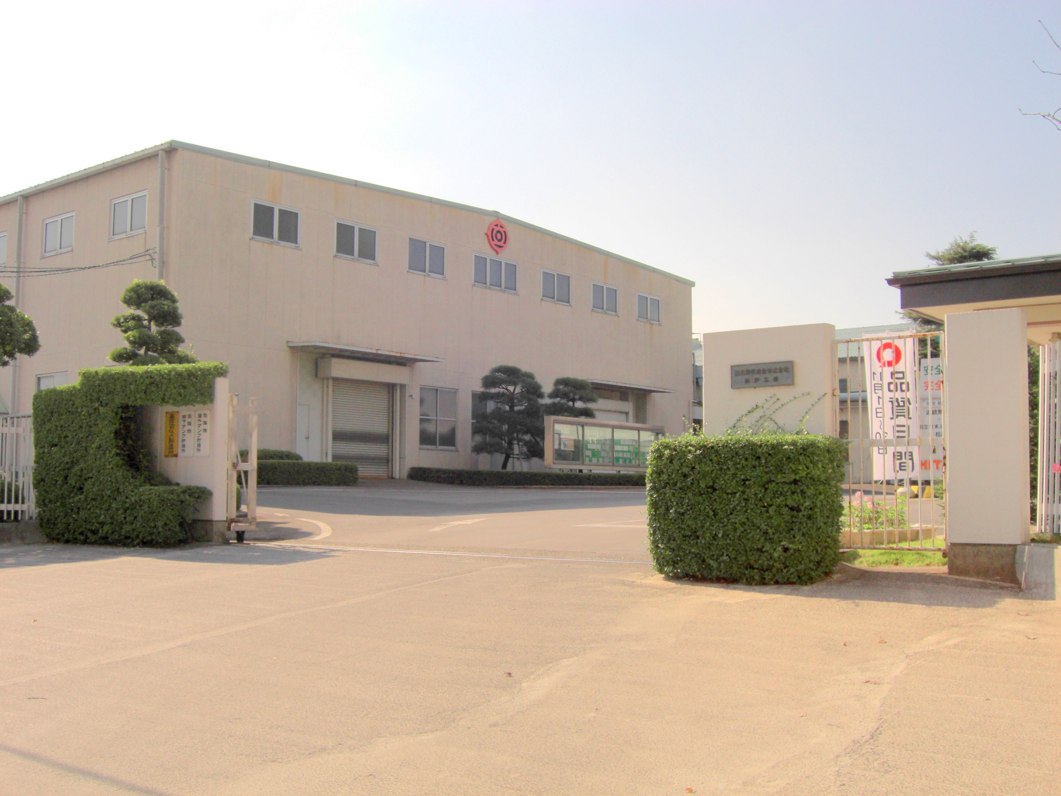 Hitachi Powdered Metals head office